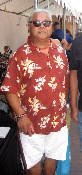 James Luna (Luiseño), performance and installation artist at SWAIA Indian Market, Santa Fe, New Mexico, 2011